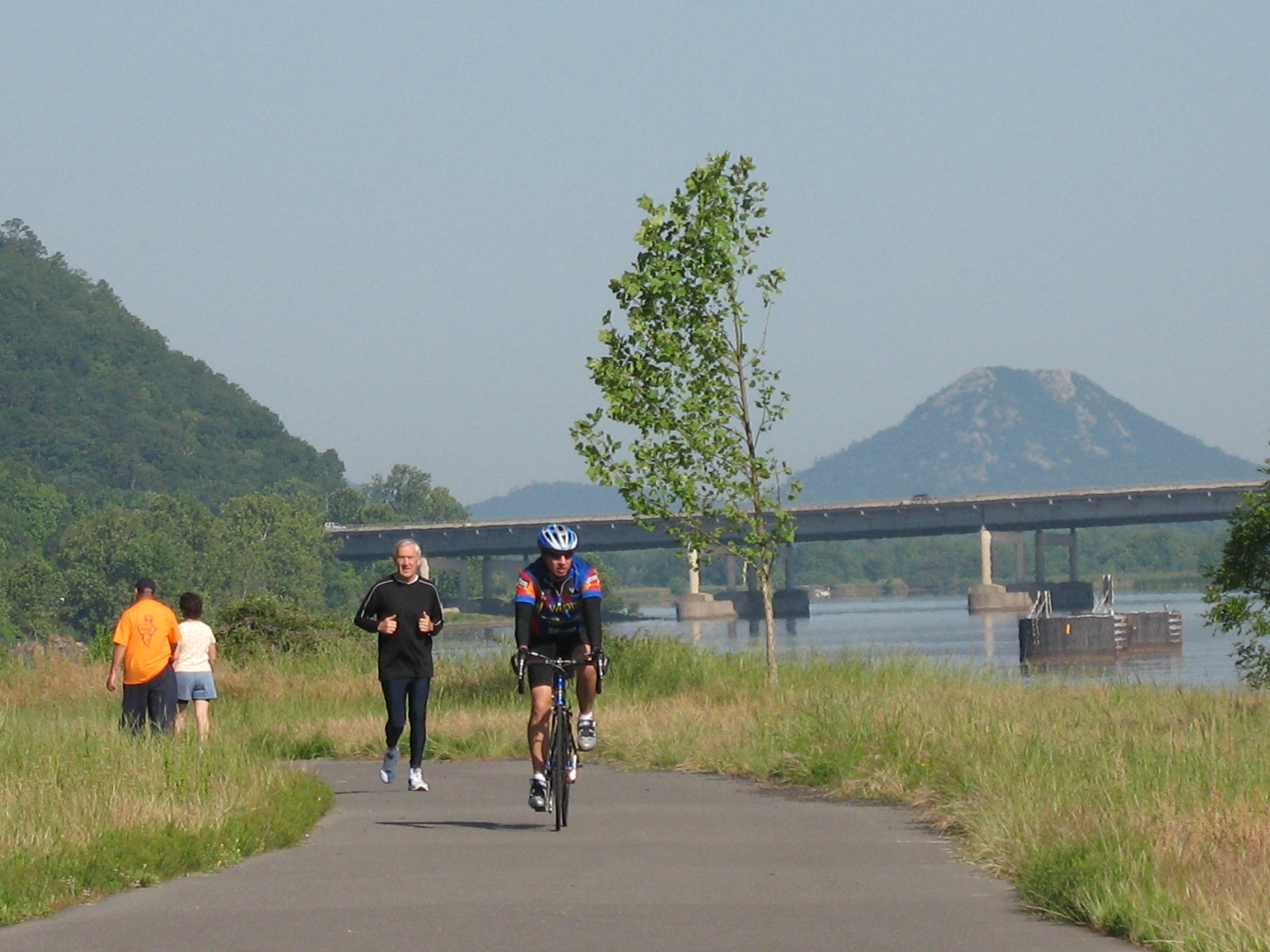 Arkansas River Trail — users enjoying the western portion of the trail with Pinnacle Mountain in the background, in central Arkansas.